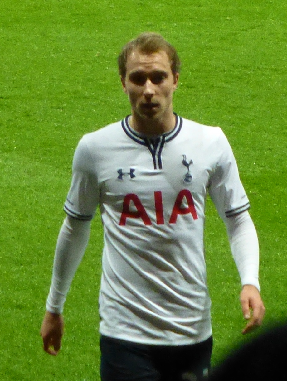 Christian Eriksen playing for Tottenham Hotspur against Arsenal at the Emirates Stadiun.